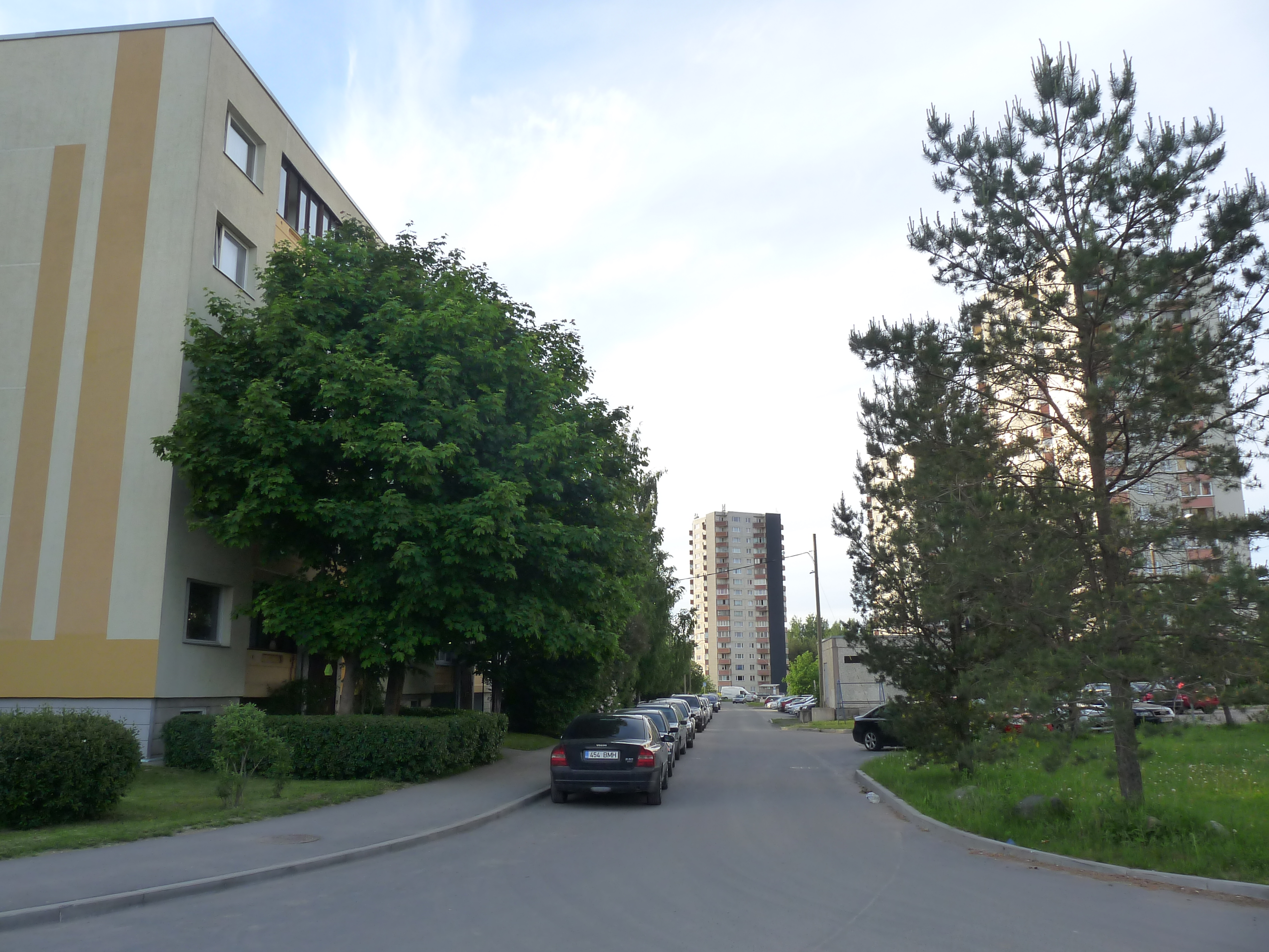 Sinimäe street in Tallinn, Estonia